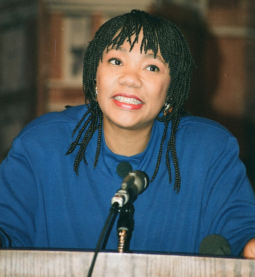 From Baltimore M.D. 1995